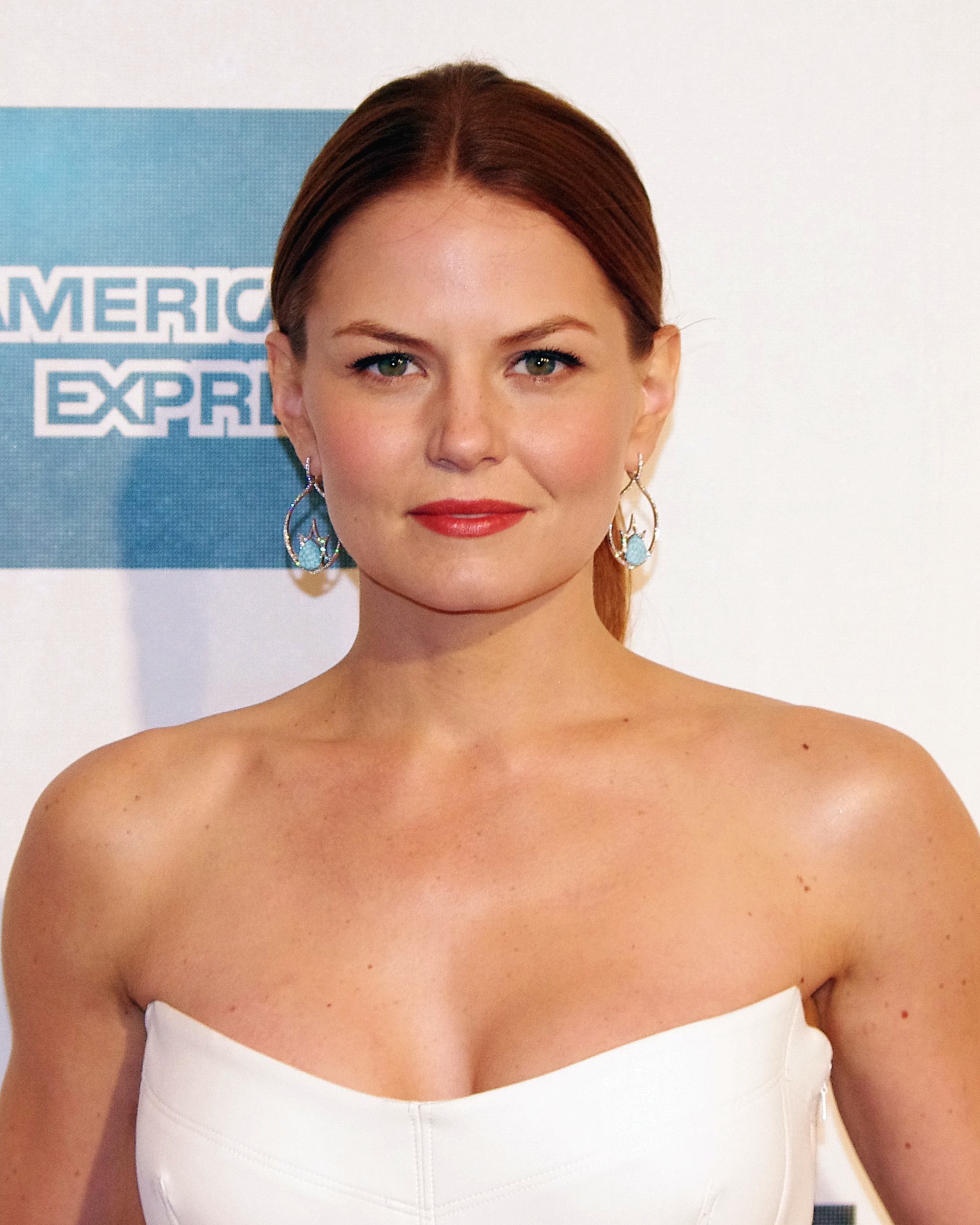 Jennifer Morrison at the 2012 Tribeca Film Festival premiere of Knife Fight.